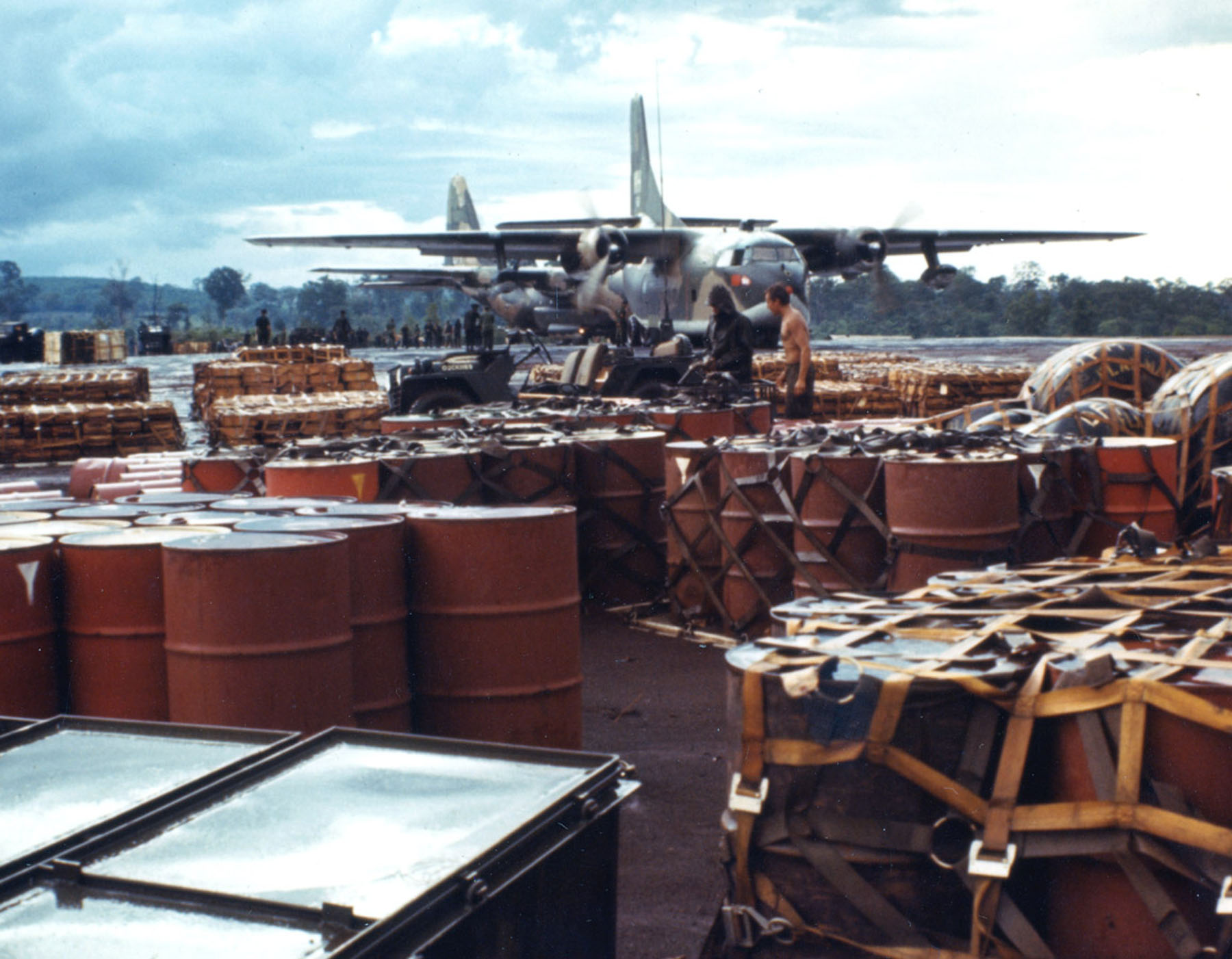 A U.S. Air Force Fairchild C-123K Provider from the 309th Tactical Airlift Squadron, 315th Tactical Airlift Wing supporting ground operations in Cambodia between April and July 1970.